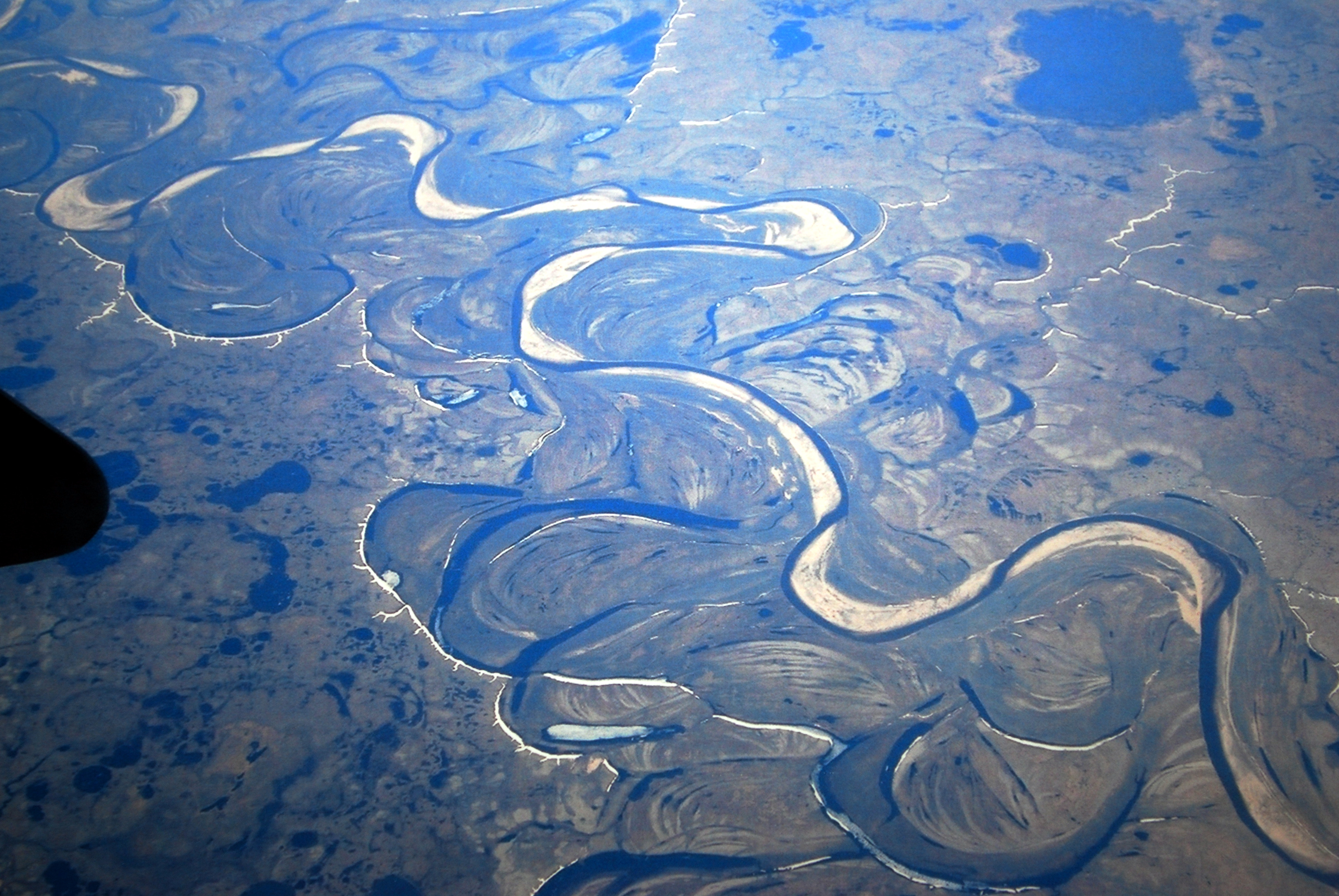 Oxbow lake, Yamal Peninsula, Russia